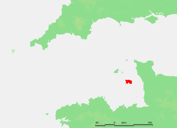 Channel Islands - Jersey.PNG